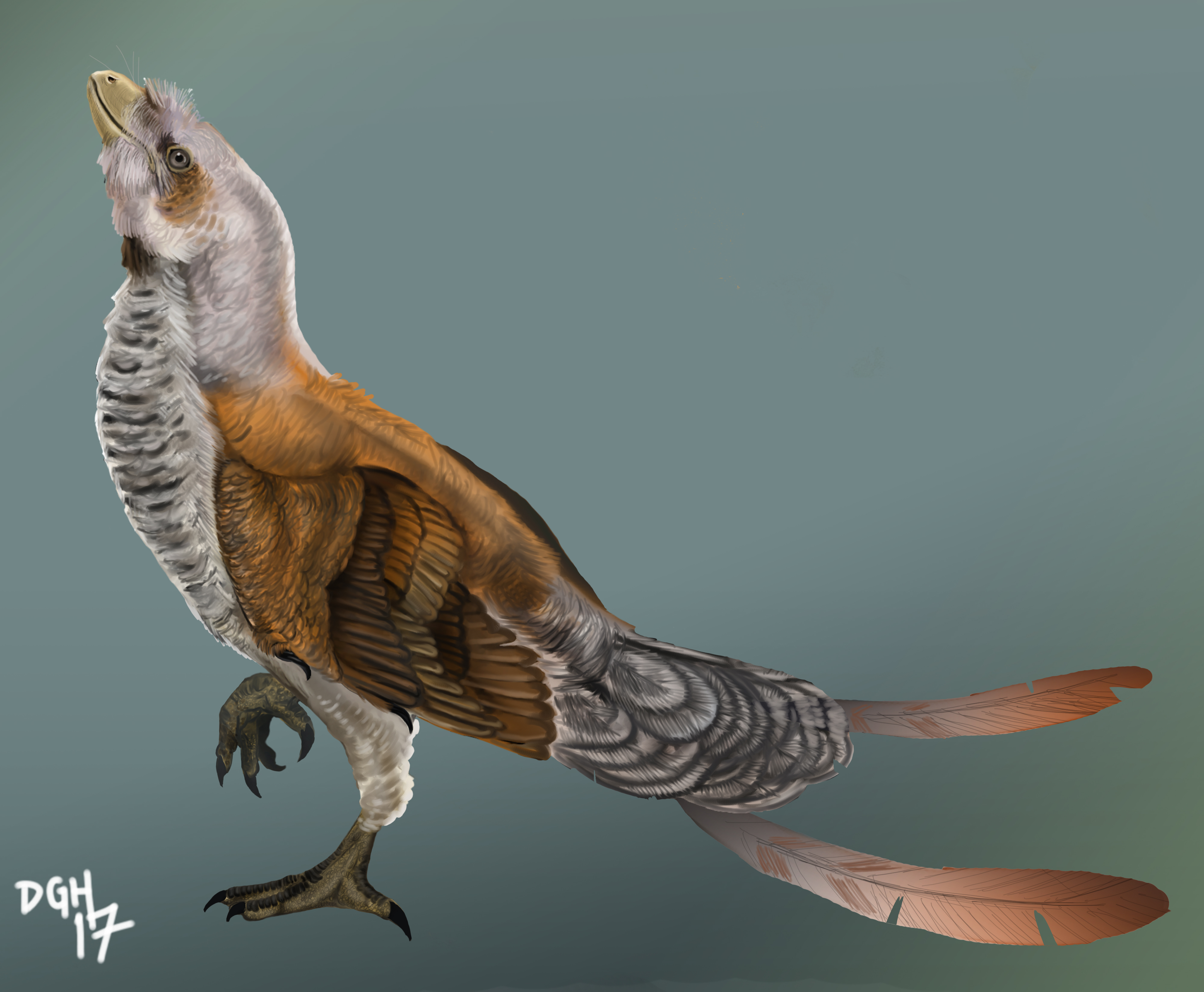 Reconstruction of Sinornis santensis